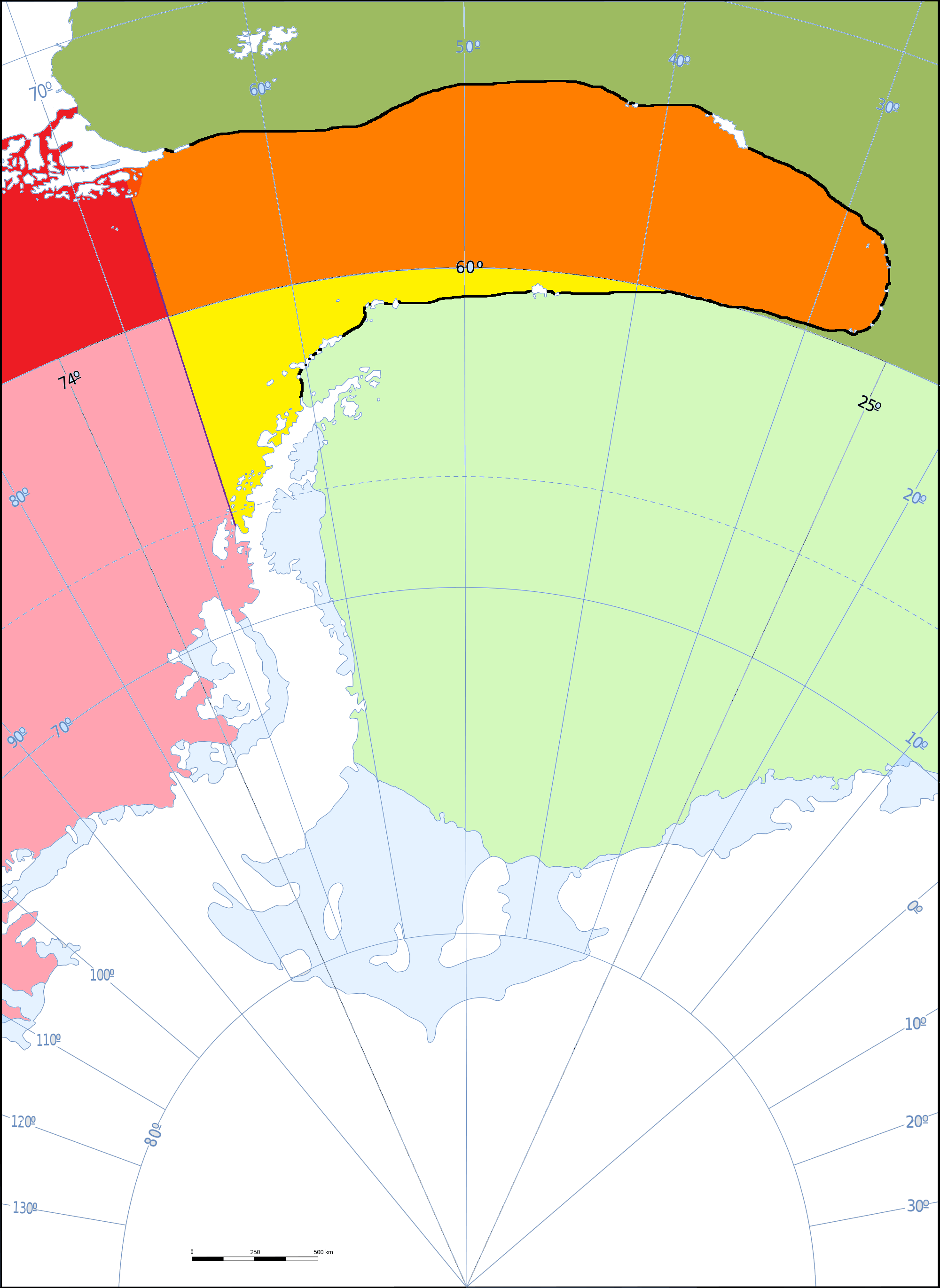 Schematic map showing the proposal submitted by the thesis called: "Natural Boundary between the Pacific and South Atlantic by the Southern Antilles Arc".